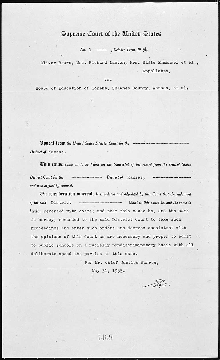 Title: Judgment, Brown v. Board of Education, 05/31/1955 From: Record Group/Collection: 267 Record Hierarchy Level: Item Scope and Content Note: Brown v. Board of Education of Topeka, five separate cases consolidated under a single name, addressed racial segregation in public schools. One year and two weeks after the ruling that racial segregation in public schools was unconstitutional, the Suprem Reference Unit: National Archives Washington, DC Reference Section Persistent URL: Repository Contact Information: Archives I Reference Section, Textual Archives Services Division (NWCT1-R), National Archives Building, 7th and Pennsylvania Avenue NW, Washington, DC, 20408. Reproductions may be ordered via an independent vendor. NARA maintains a list of vendors at Access Restrictions: Unrestricted Use Restrictions: Unrestricted